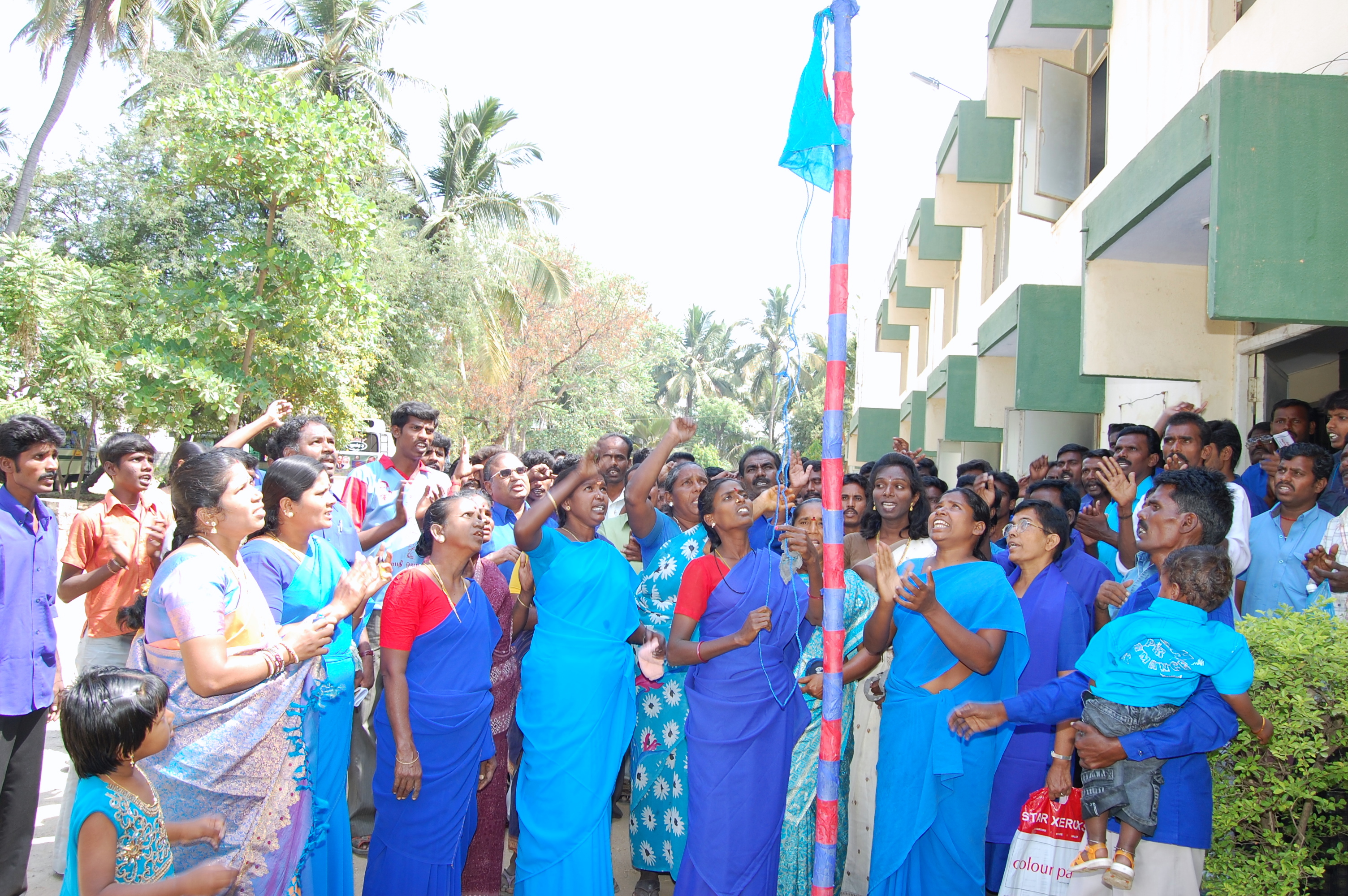 Picture taken during flag hoisting during Aathi thamilar peravai Women's Conference at Salem, Tamil Nadu, India on 8th March 2009